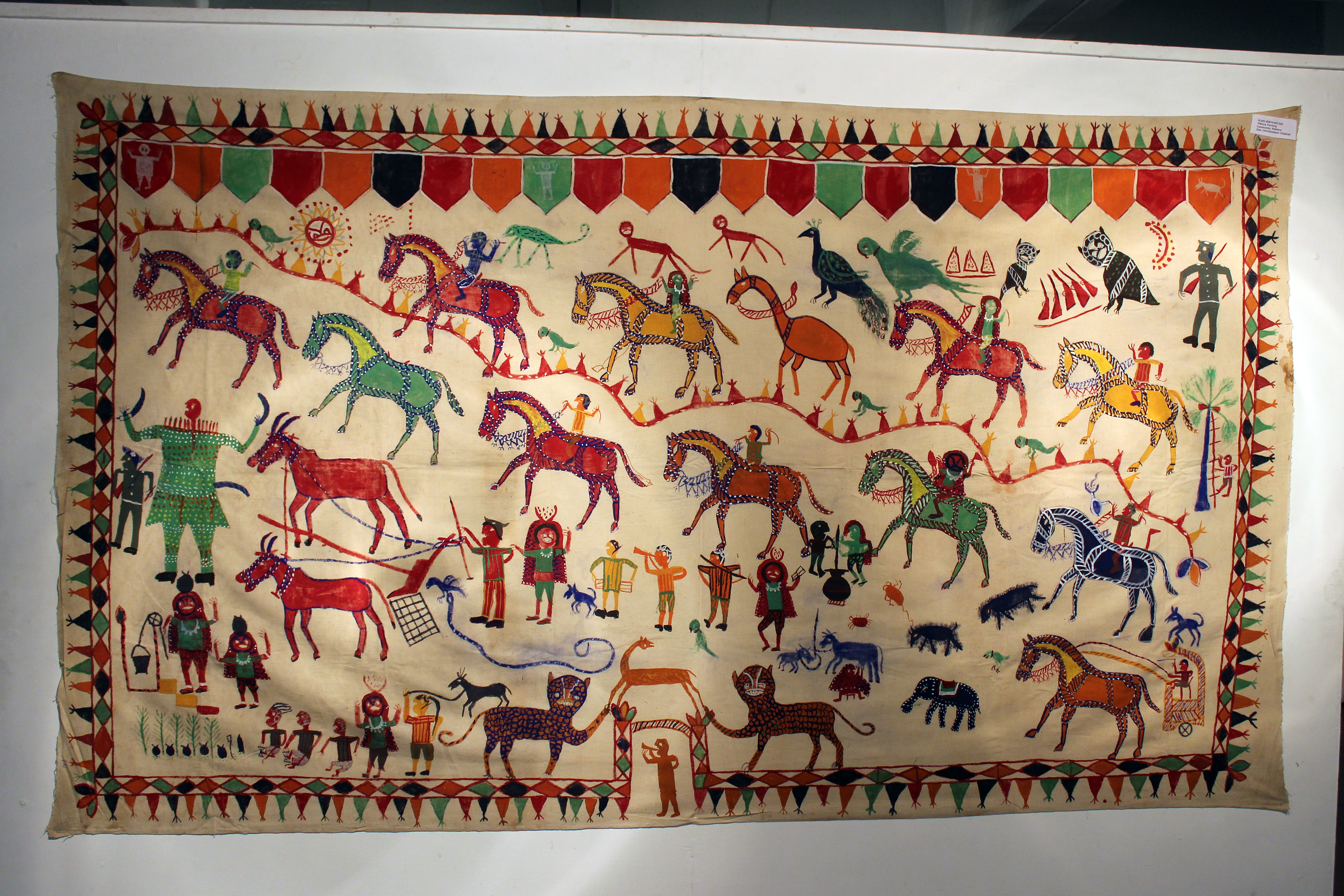 Pithora Painting Rathava Community Clothing Gujrat ,India